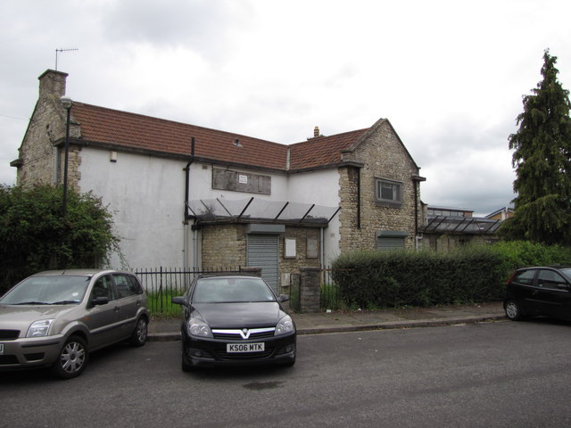 Former vicarage at Inns Court, Bristol. This listed building contains 15th century features